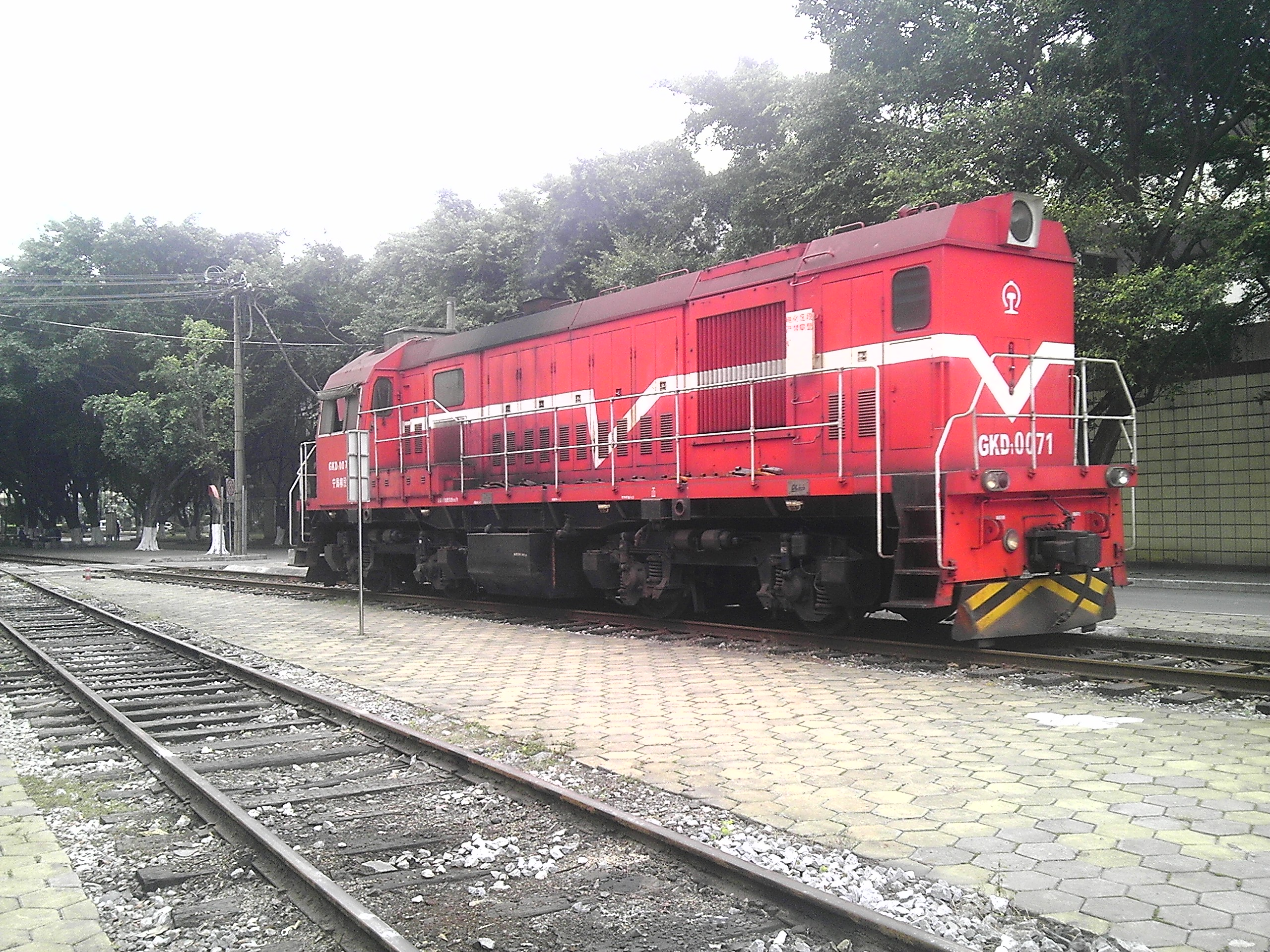 China Railways GKD1 0071 in Liuzhou Locomotive Depot, Nanning Railway Bureau.